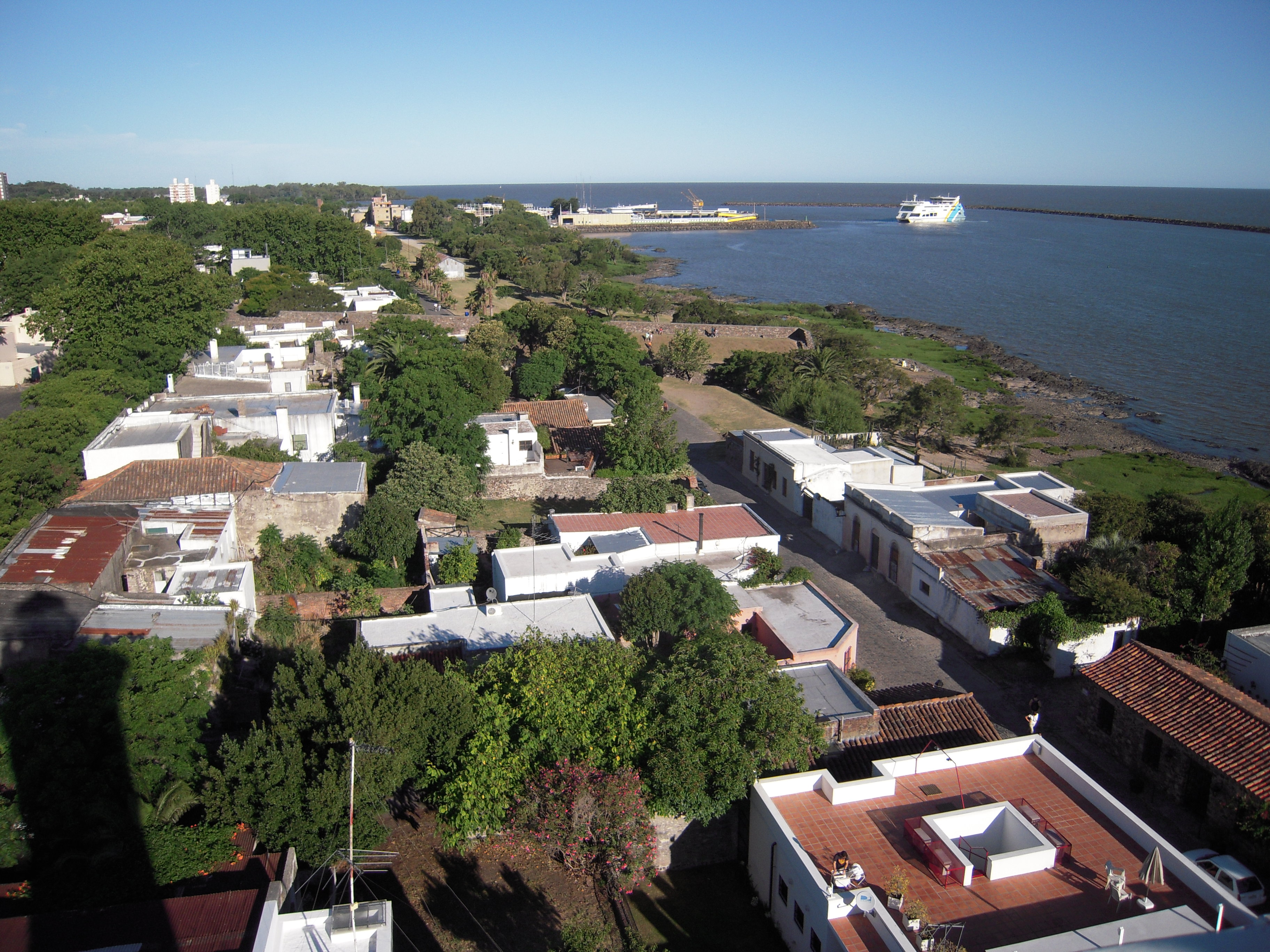 Colonia del Sacramento, northeastern part of the city with the ferry port, seen from the lighthouse